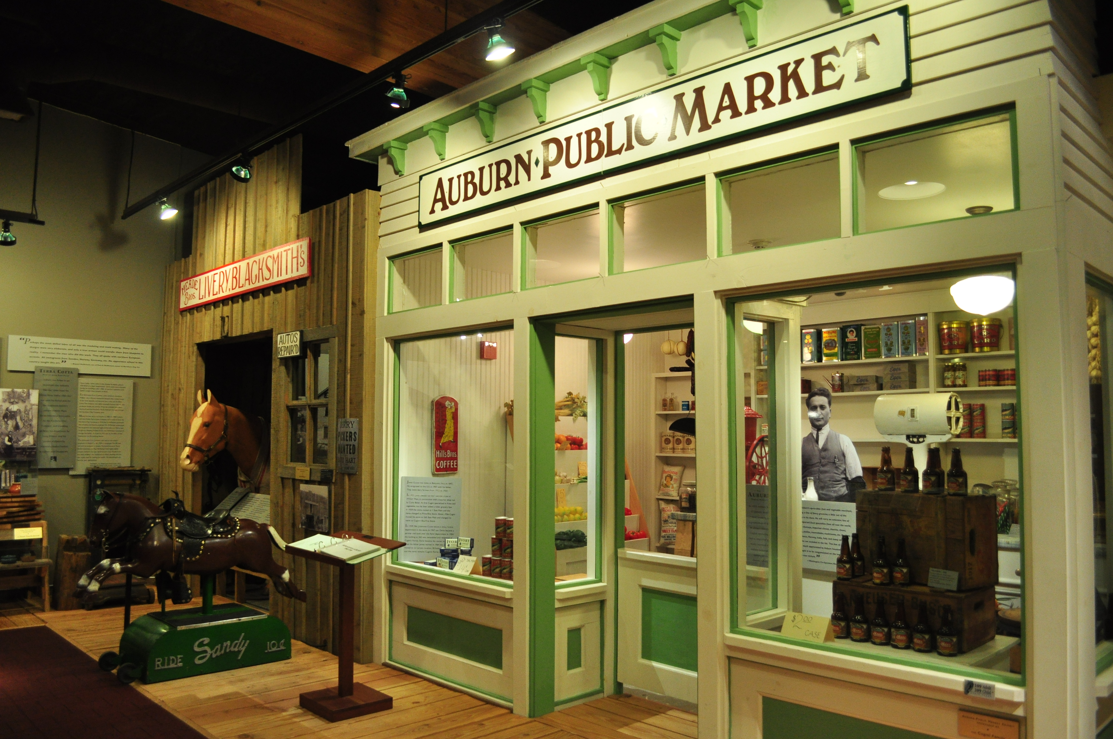 Replica early-to-mid-20th-century grocery store, White River Valley Museum, Auburn, Washington.